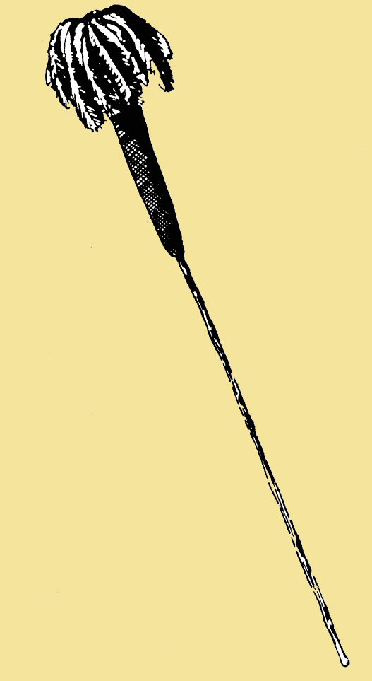 Effigy of Dak, the second Collo (Shilluk) king and God of war.